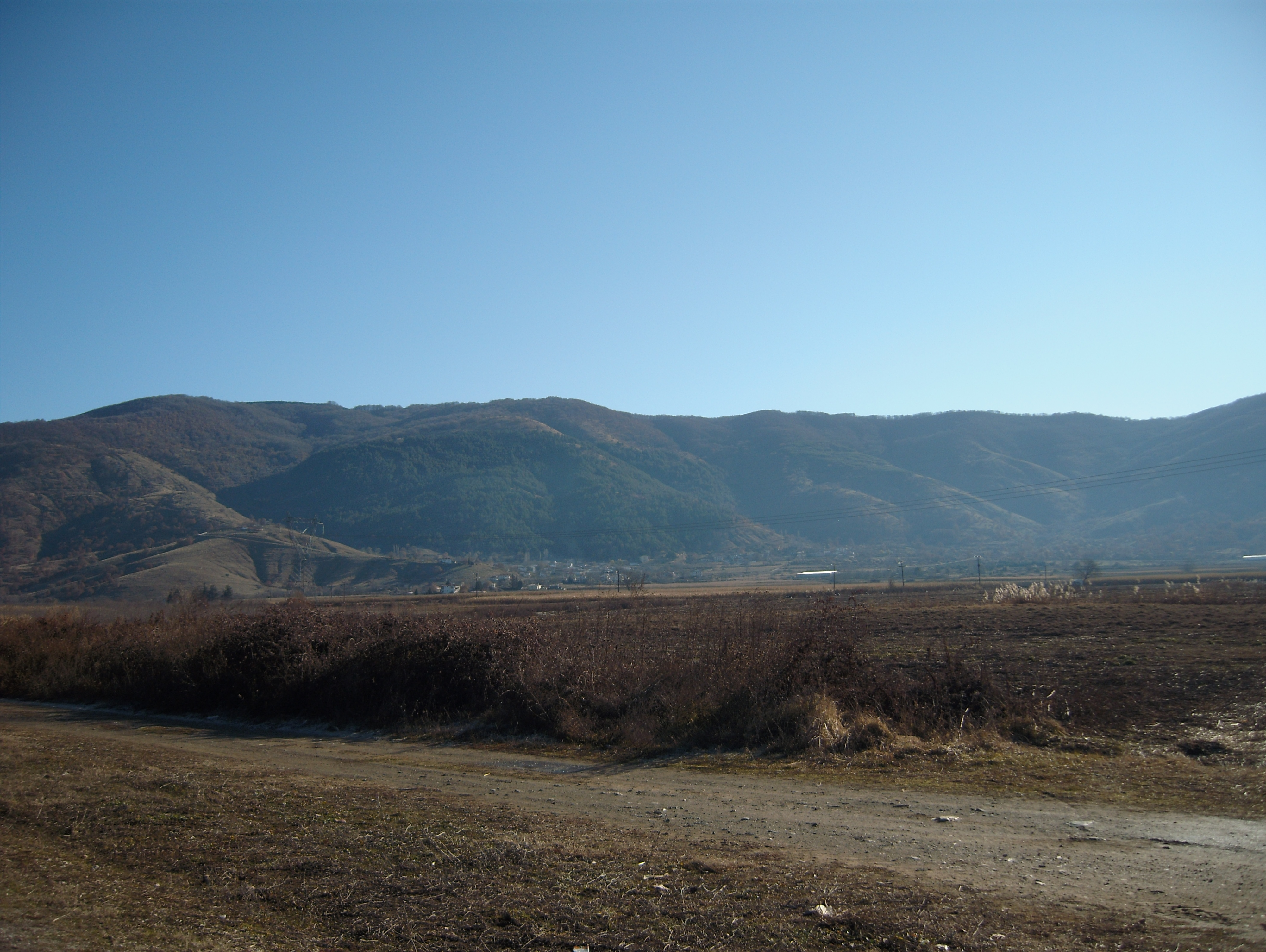 Kumanichevo / Lithia